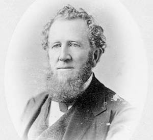 Peter Patterson, Member for West York, Ontario Legislative Assembly